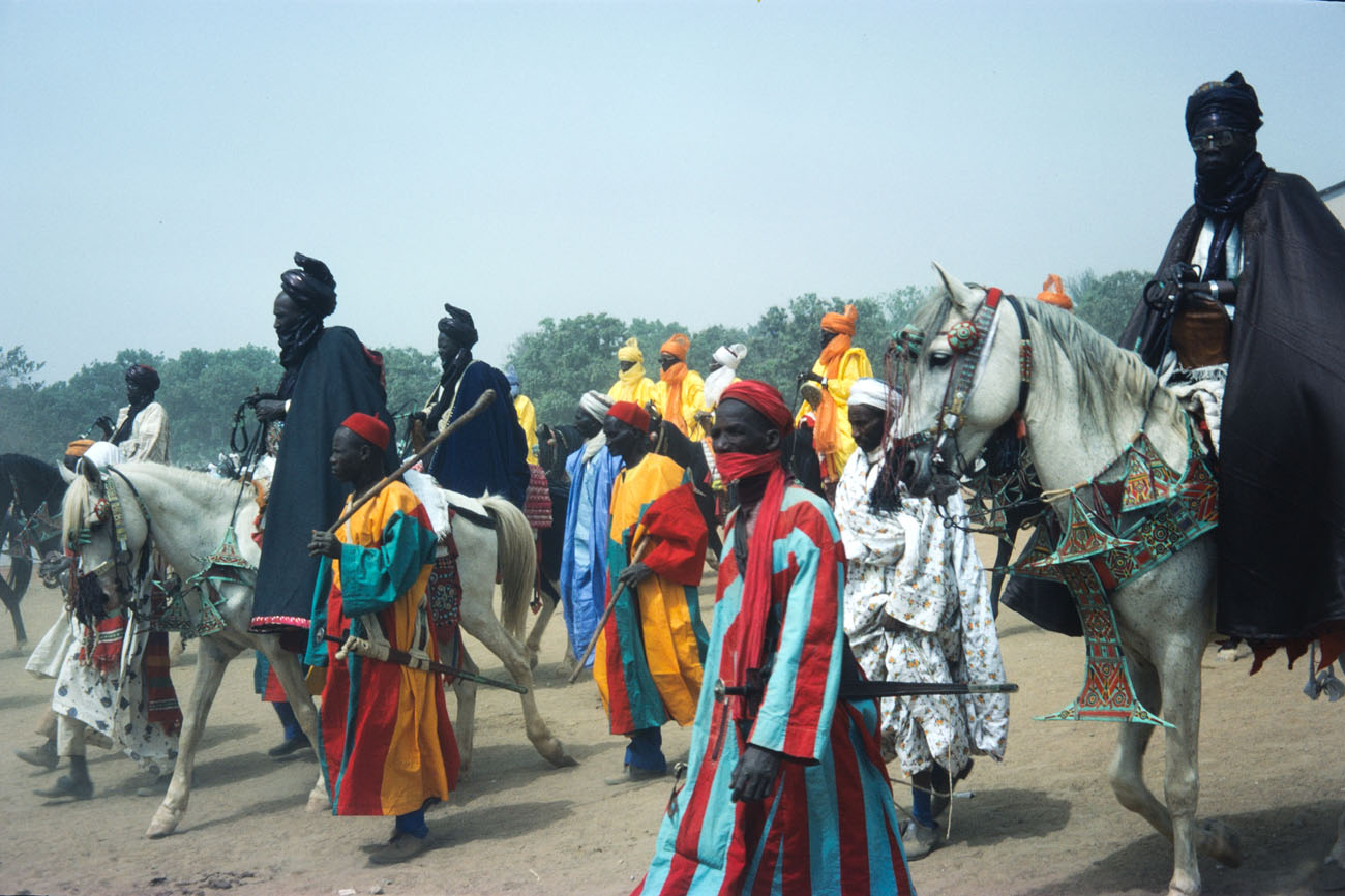 Grand Durbar in Kaduna State in the occasion of Black and African Festival of Arts and Culture, 15. january - 12. february. Accession number/ Diaarinumero Rd4.4:12 Photo by Helinä Rautavaara, 1977 Helinä Rautavaara museum Contact/ Ota yhteyttä